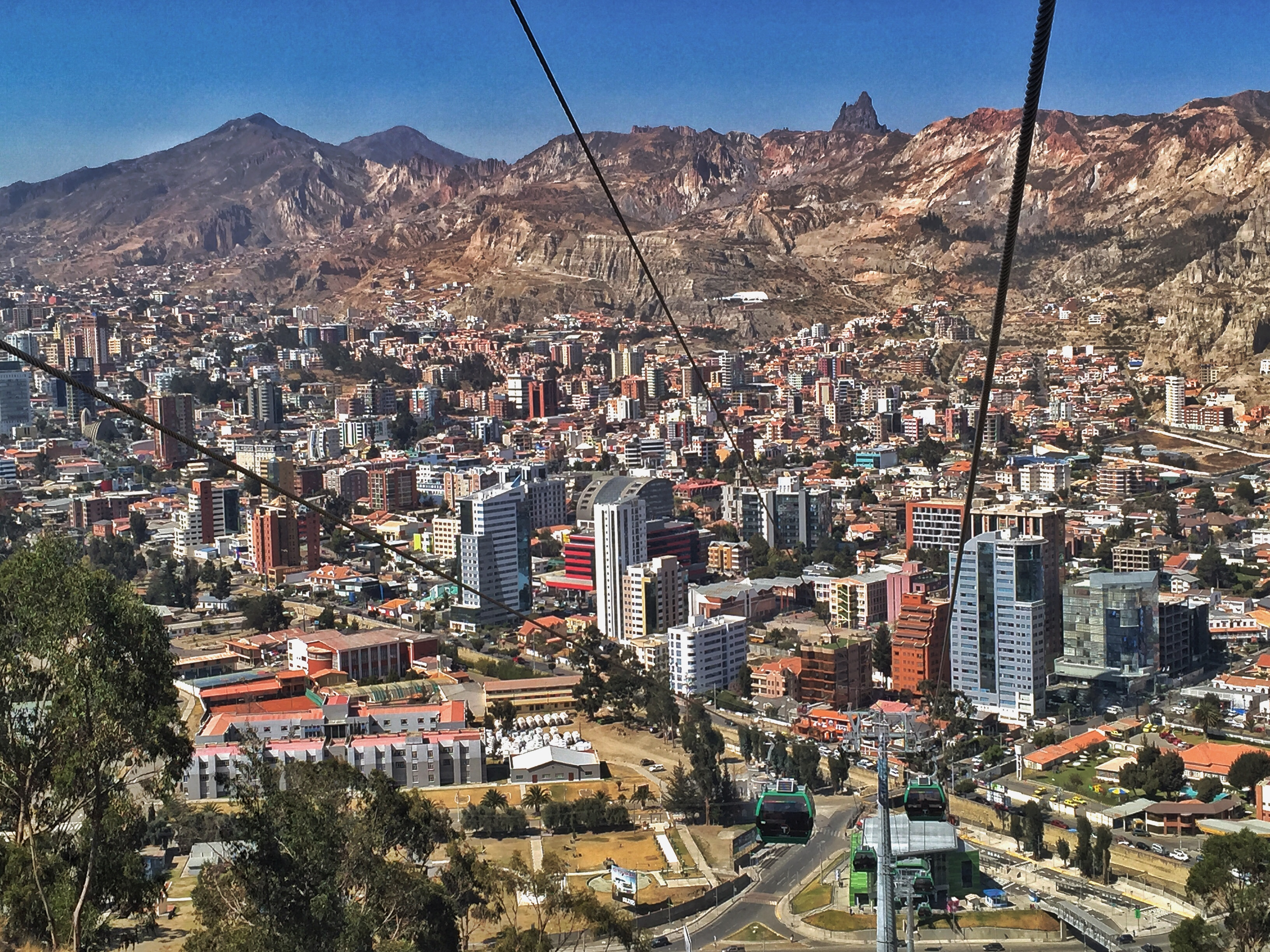 "Zona Sur" (Southern District), one of the most affluent and commercial neighborhoods in La Paz.